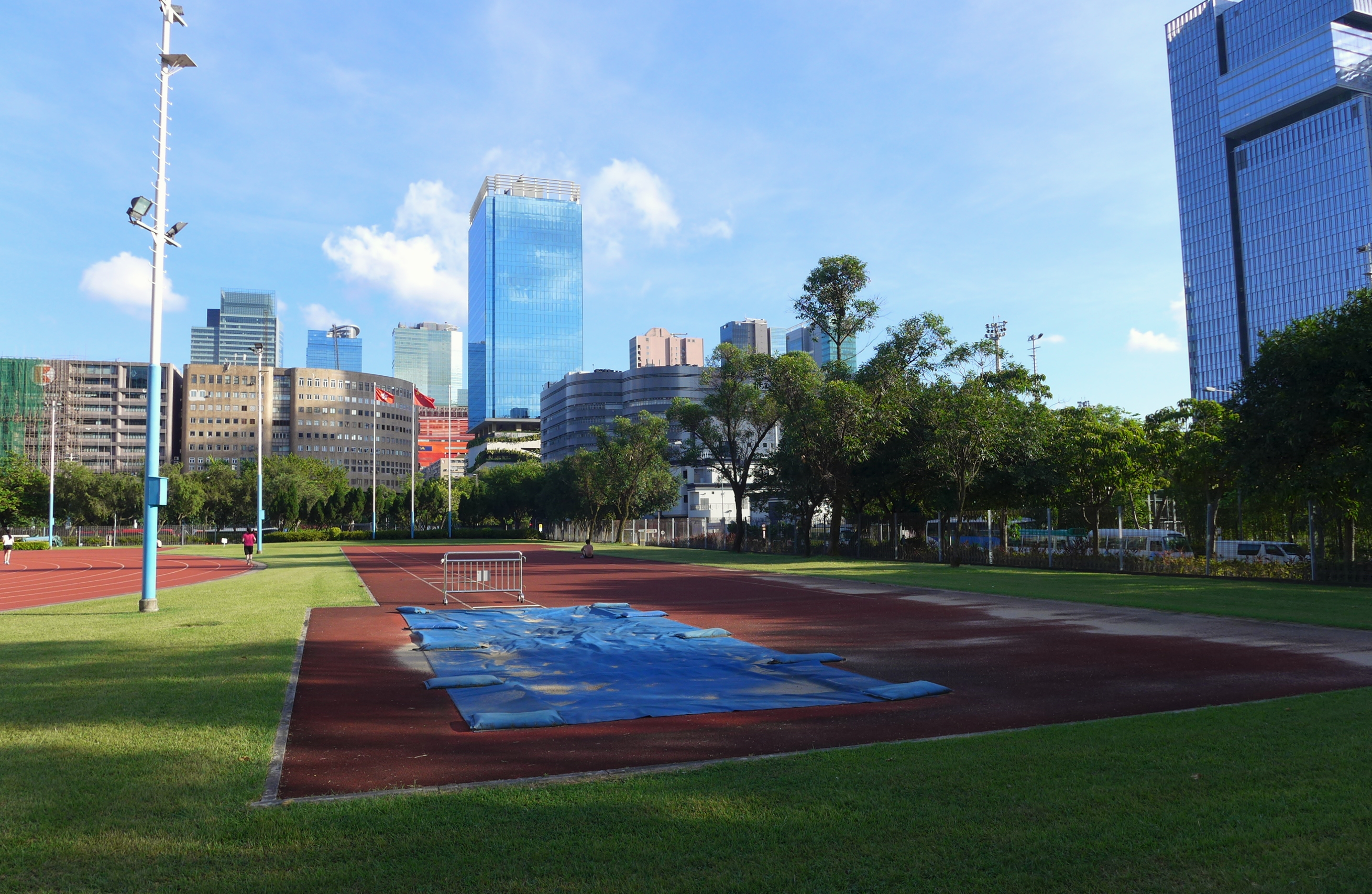 Kowloon Bay Sports Ground